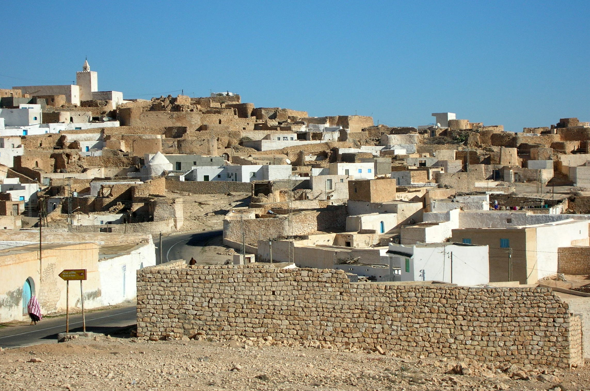 Village of Tamezret, Tunisia